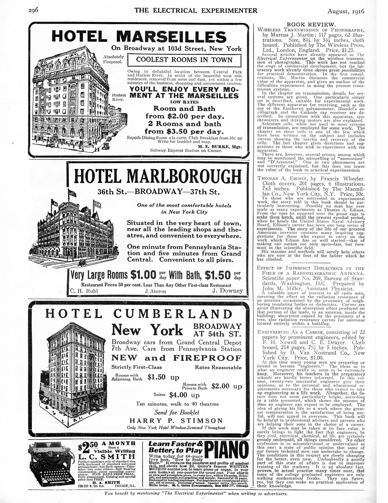 The Electrical Experimenter, August 1916. Published by Experimenter Publishing Company Inc. Hugo Gernsback, President; Sidney Gernsback, Treasure; Milton Hymes, Secretary. The Experimenter Publishing Company would fill unsold space the hotel ads and receive vouchers as payment. They would give these vouchers wholesalers, advertisers and others with whom they did business. The page numbers were on an annual base, not per issue. This issue had pages 225 to 304. Page 296 is shown. Source: This cover was scanned by User:Swtpc6800 on an Epson Perfection 1240U at 300 dpi with half-tone de-screening enabled and stored as TIFF. The image was touched up in Adobe Photoshop Elements 3.0 and this copy saved as a 150 dpi JPEG.